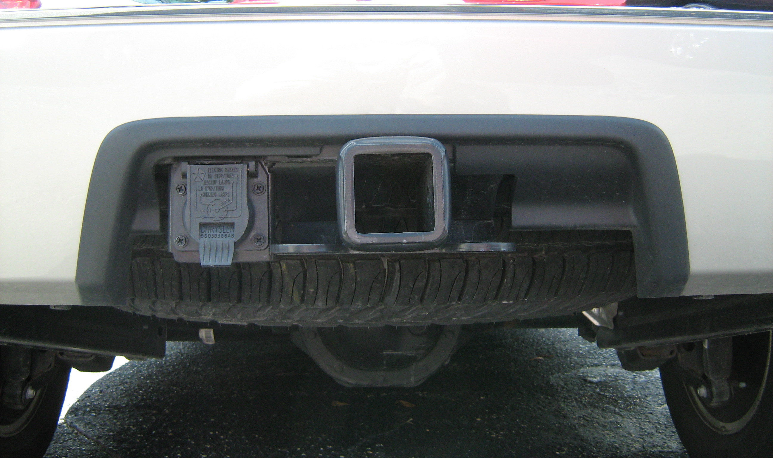 Receiver for a hitch. Factory installed on a 2008 Jeep Grand Cherokee 3.0 Diesel SUV.